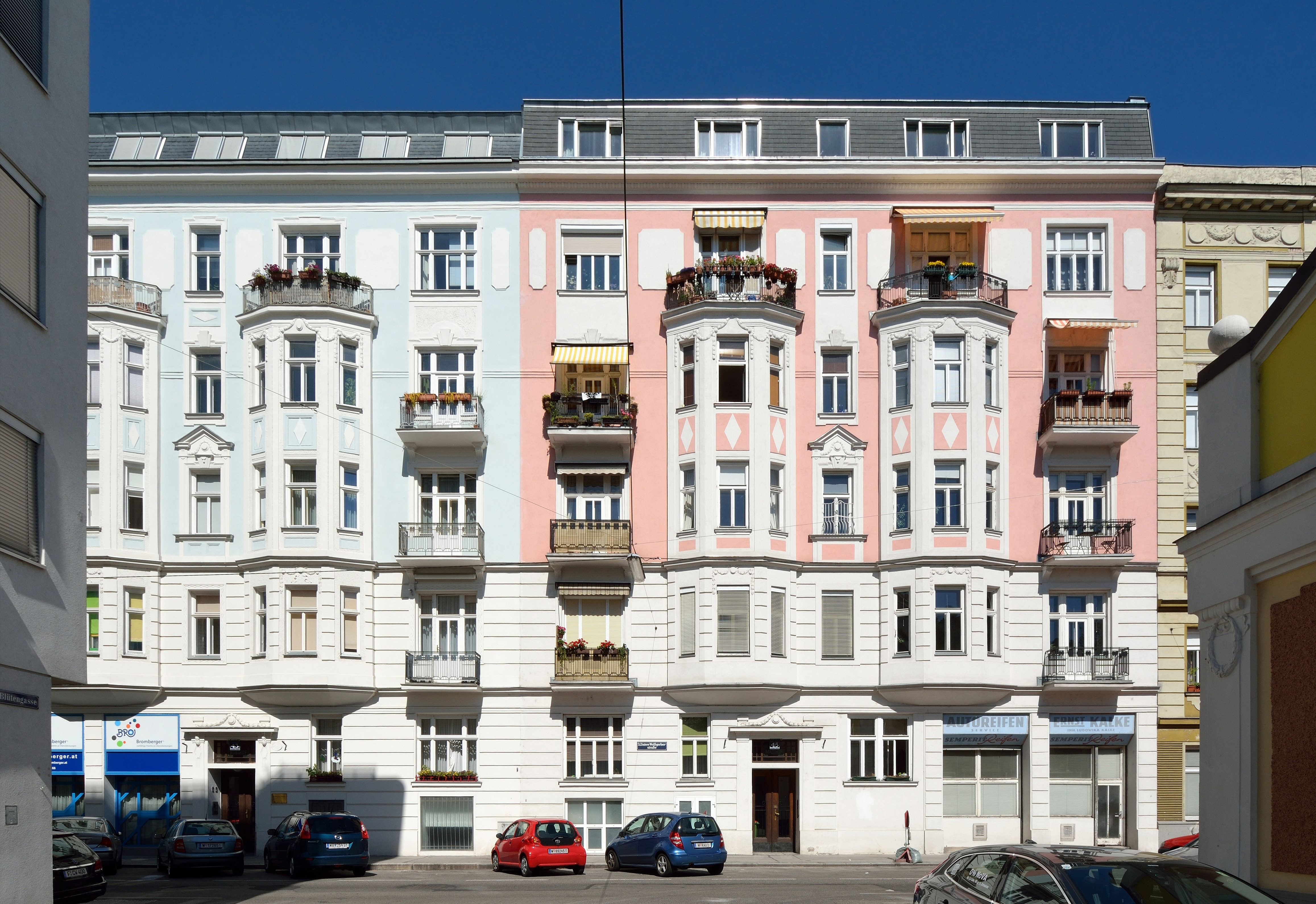 Residential building Untere Weißgerberstraße 43 and 45, so called Mädi-Hof and Bubi-Hof, architect Erwin Raimann, 3rd district of Vienna